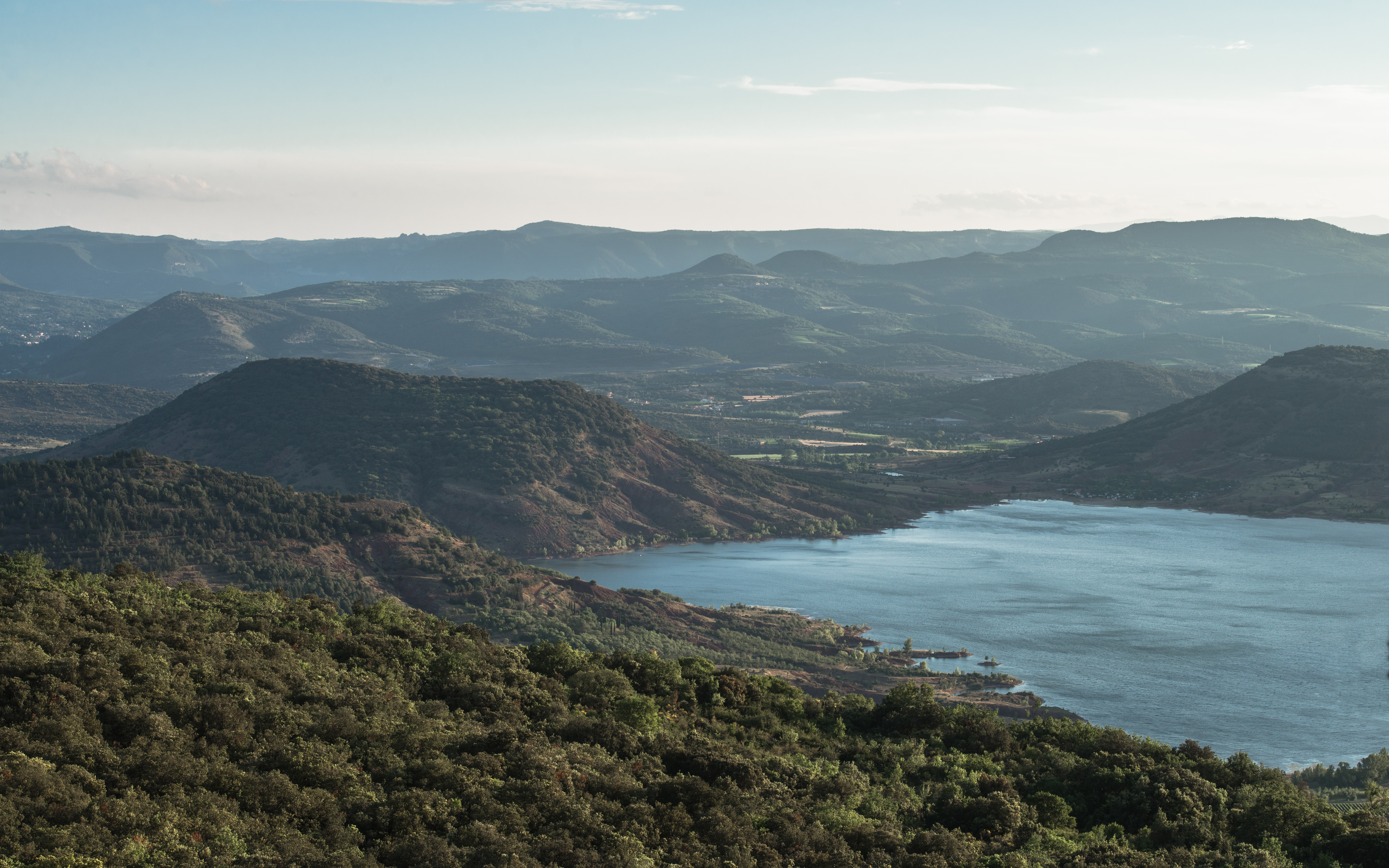 The "Lac du Salagou". Photo taken from the South in the commune of Liausson. Hérault, France.